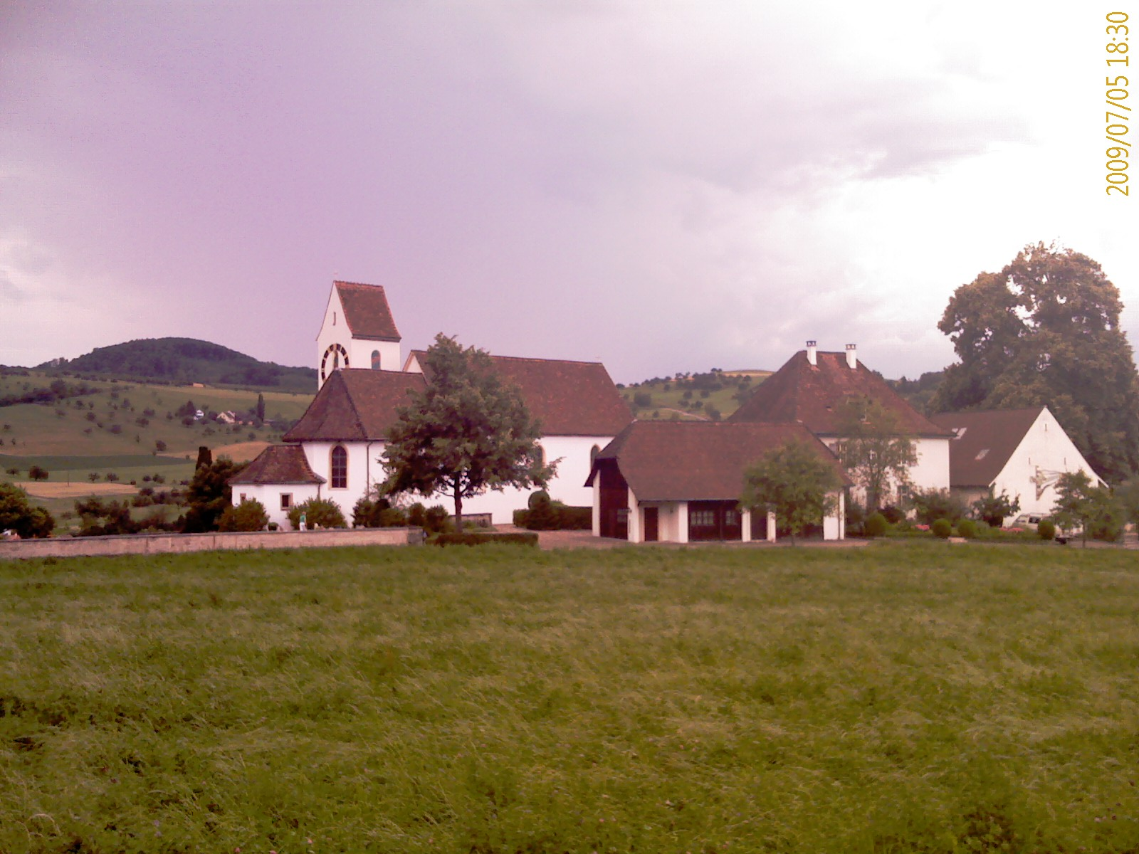 Church of Magden, canton of Aargau, SwitzerlandEsperanto: Preĝejo de Magden, Kantono Argovio, Svislando